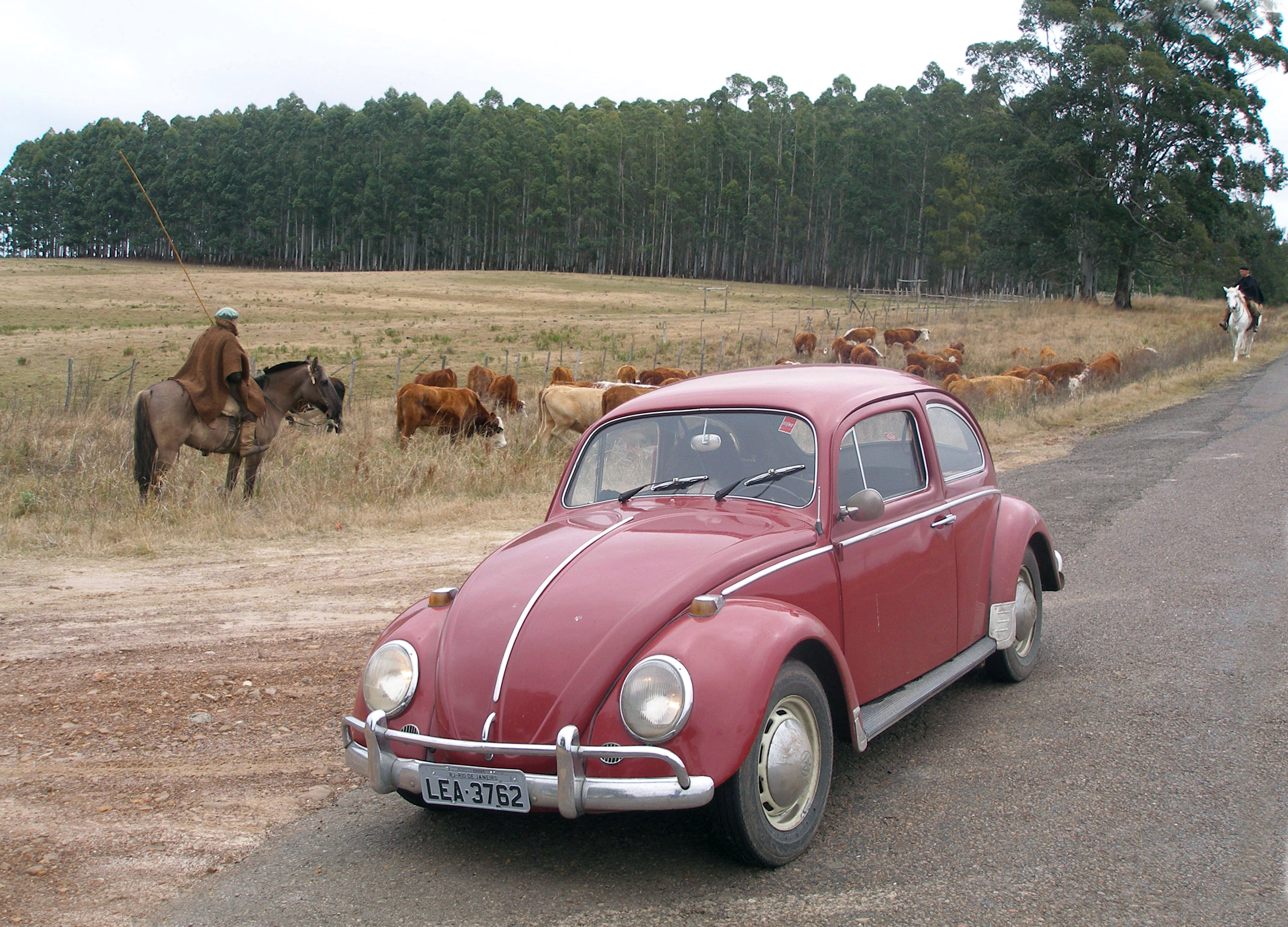 Brazilian made Volkswagen Sedan 1.300 (Fusca), model year 1969